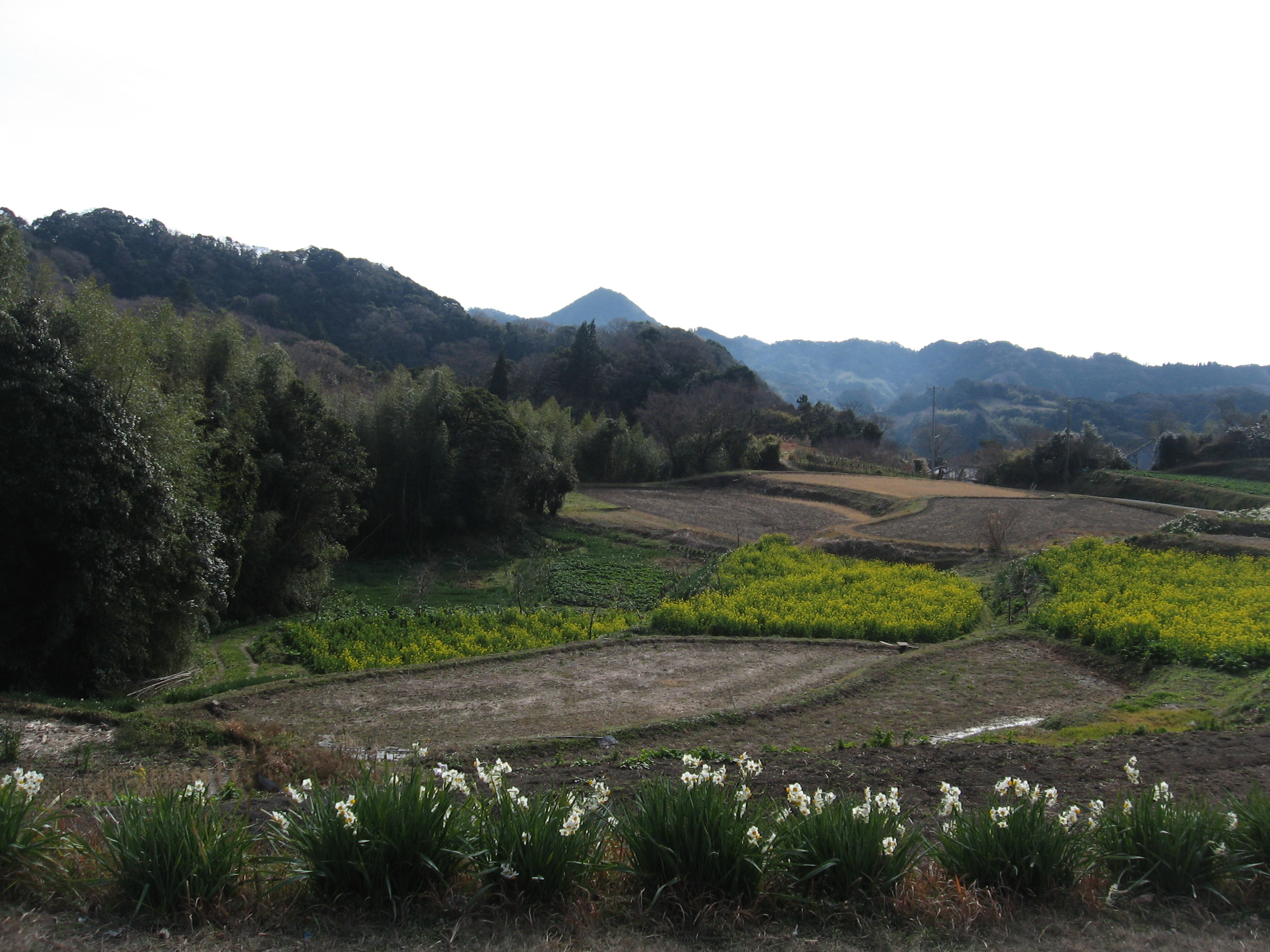 Okuzure Suisenkyo,Kyonan,Chiba